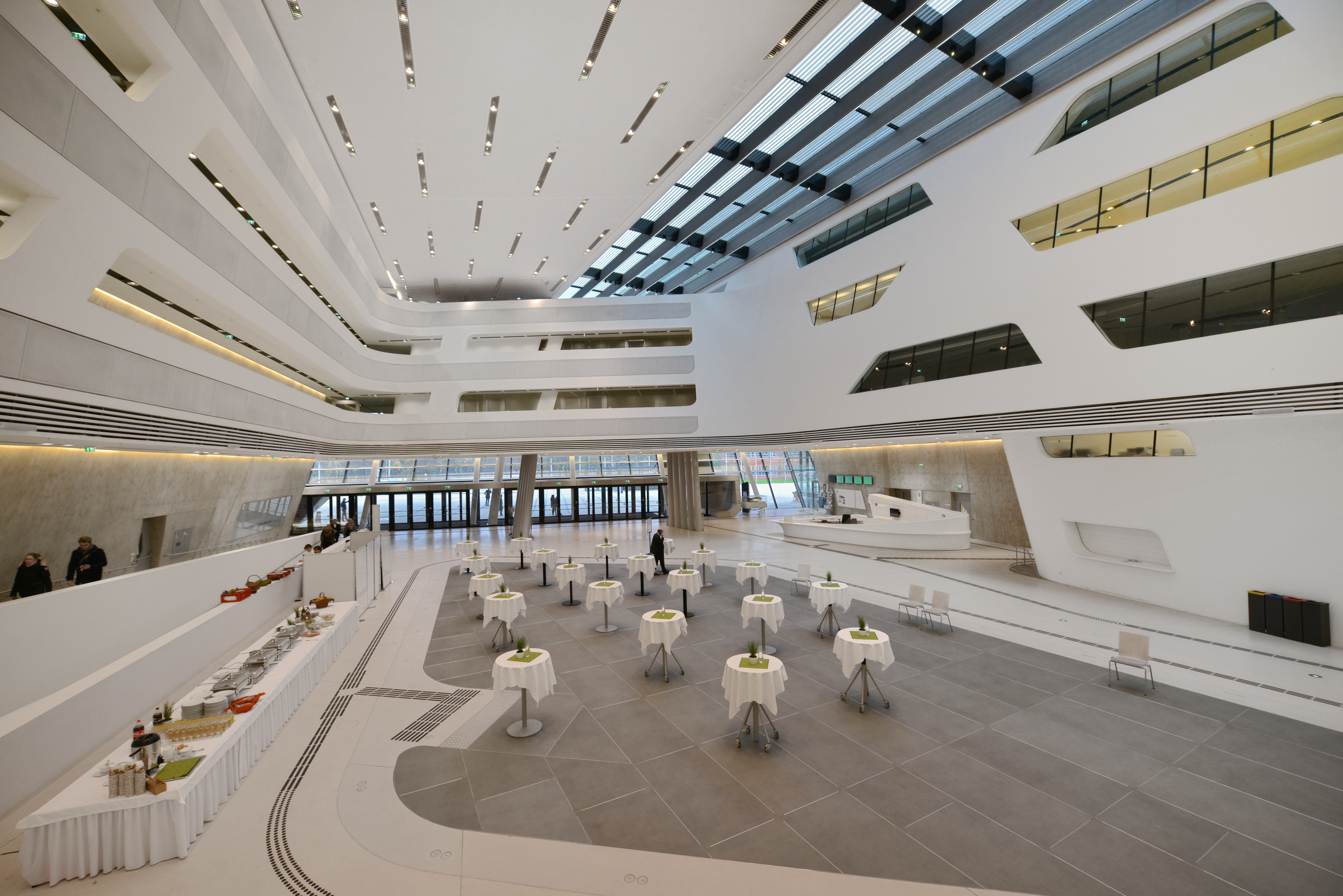 Campus of the Vienna University of Economics and Business, Library and Learning Center (architect: Zaha Hadid), Welthandelsplatz 1, 2nd district of Vienna.